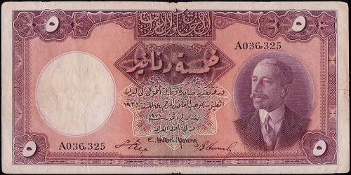 Obverse of 5 dinar note, issued in 16 March 1932